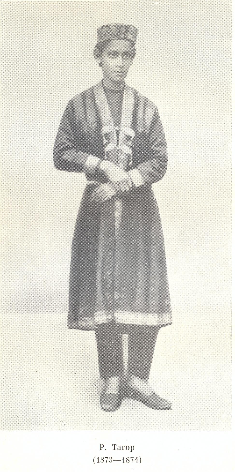 Rabindranath Tagore